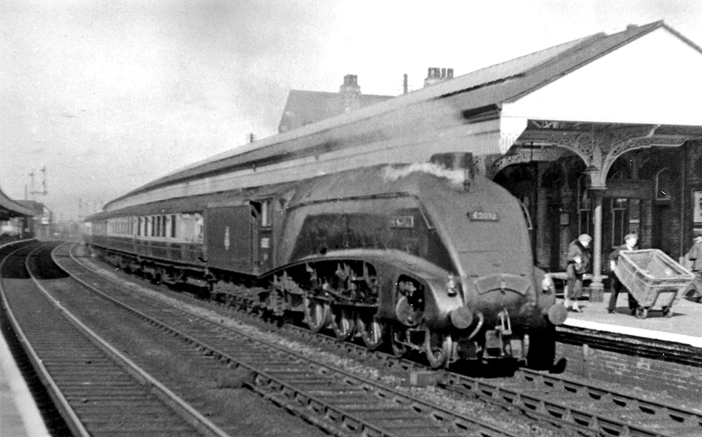 Retford Station, with Up Leeds express. View NW, towards Doncaster and the North; ex-Great Northern ECML. The 09.50 from Leeds (also Halifax and Bradford) to King's Cross is headed by A4 Pacific No. 60033 'Seagull'. Note the porter with the outsize basket-trolley. [With apologies for the poor quality of photograph].